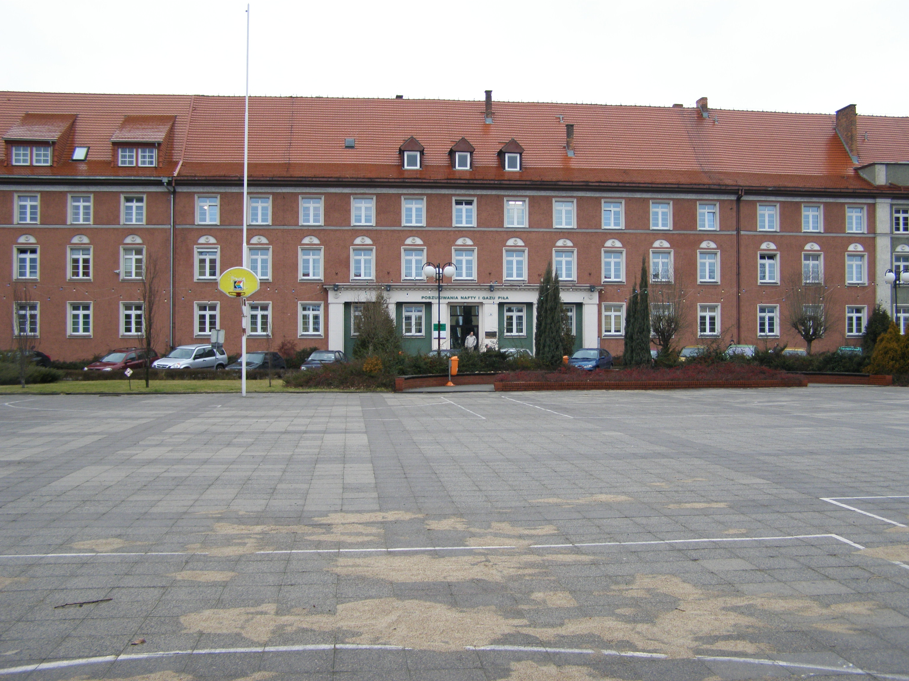 The Building of the former Consistory of the Ecclesiastical Province of Posen-West Prussia in today's Piła (then Schneidemühl). In 1923 the Evangelical Church of the old-Prussian Union established its Ecclesiastical Province of Posen-West Prussia, comprising the united Protestant congregations located in those parts of the former political Provinces of Posen and West Prussia remaining with Germany after 1920, forming the new political Province of the Frontier March of Posen-West Prussia. After the Soviet conquest and Polish annexation the ecclesiastical province vanished with the flight and subsequent expulsion of the parishioners. Now the building is used as administrative centre of an oil and gas drilling company.